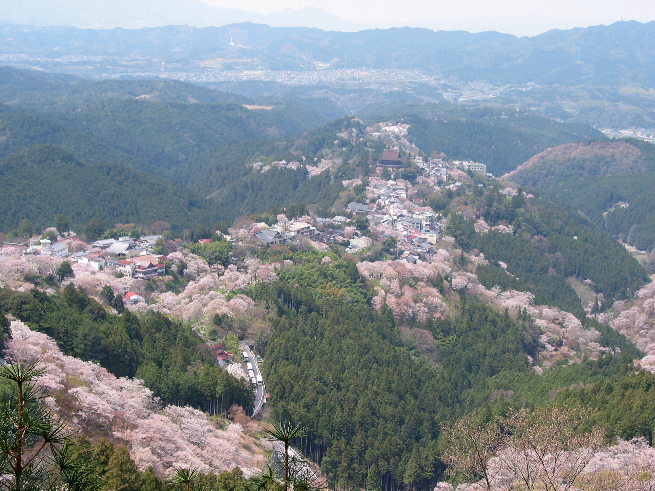 Cherry blossoms of Yoshinoyama (Mt.Yoshino is one of the most famous sightseeing spots for cherry blossoms in Japan.) Place:Yoshinoyama (Mt.Yoshino is one of the most famous sightseeing spots for cherry blossoms) Yoshino Yoshino District, Nara Pref., Japan.